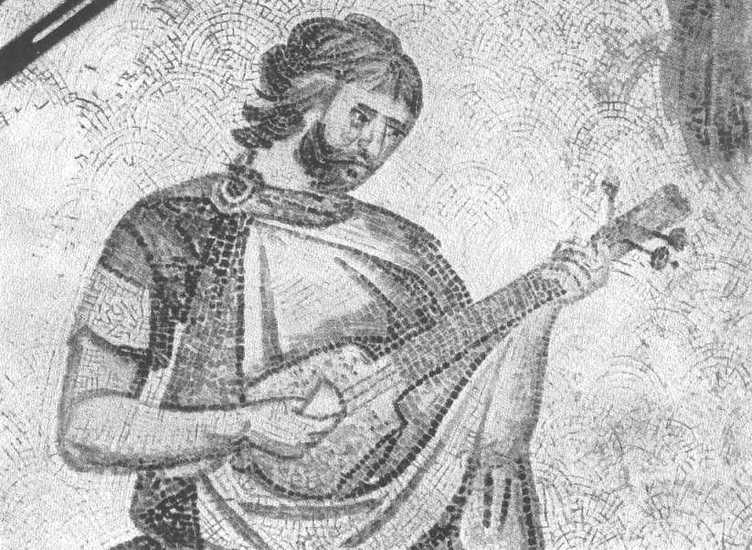 Roman or Byzantine Pandoura (aka. Pandore or Pandura) from a 6th Century AD mosaic from Constantinople at the Great Palace of the Byzantine Emperors. George Henry Farmer named it a 3-string pandoura in his October 1949 article, [1]